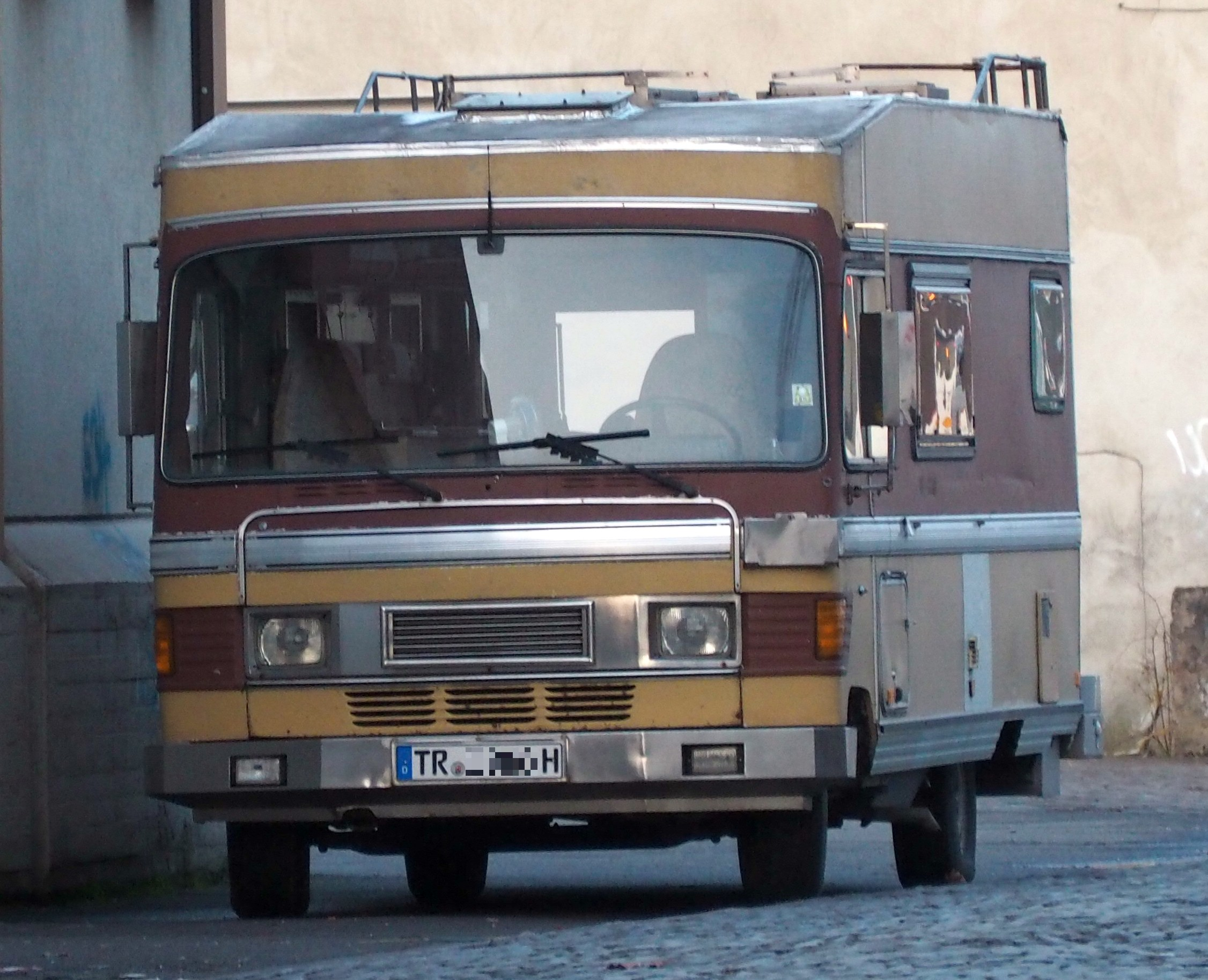 An older camper van in Germany, presumably from the 1970s but still in fair condition. It appears to be a Mercedes-Benz T1-based Hymermobil (see for example Moscow, ancient Hymer-Mercedes camper van (31269880832).jpg.